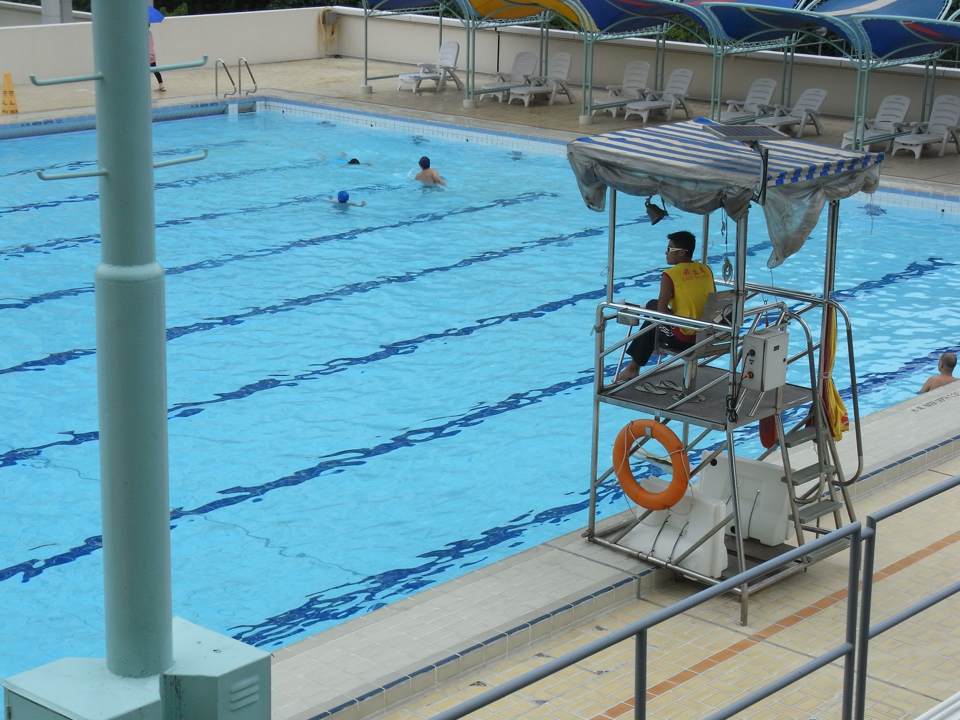 香港島 包玉剛游泳池, Pao Yue Kong Swimming Pool, Wong Chuk Hang, Hong Kong